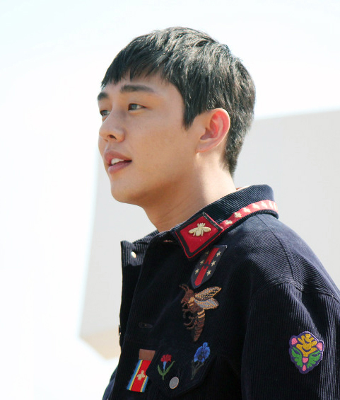 Yoo Ah-In attends the outdoor greeting event for the movie 'The Throne' at BIFF Village on October 3, 2015